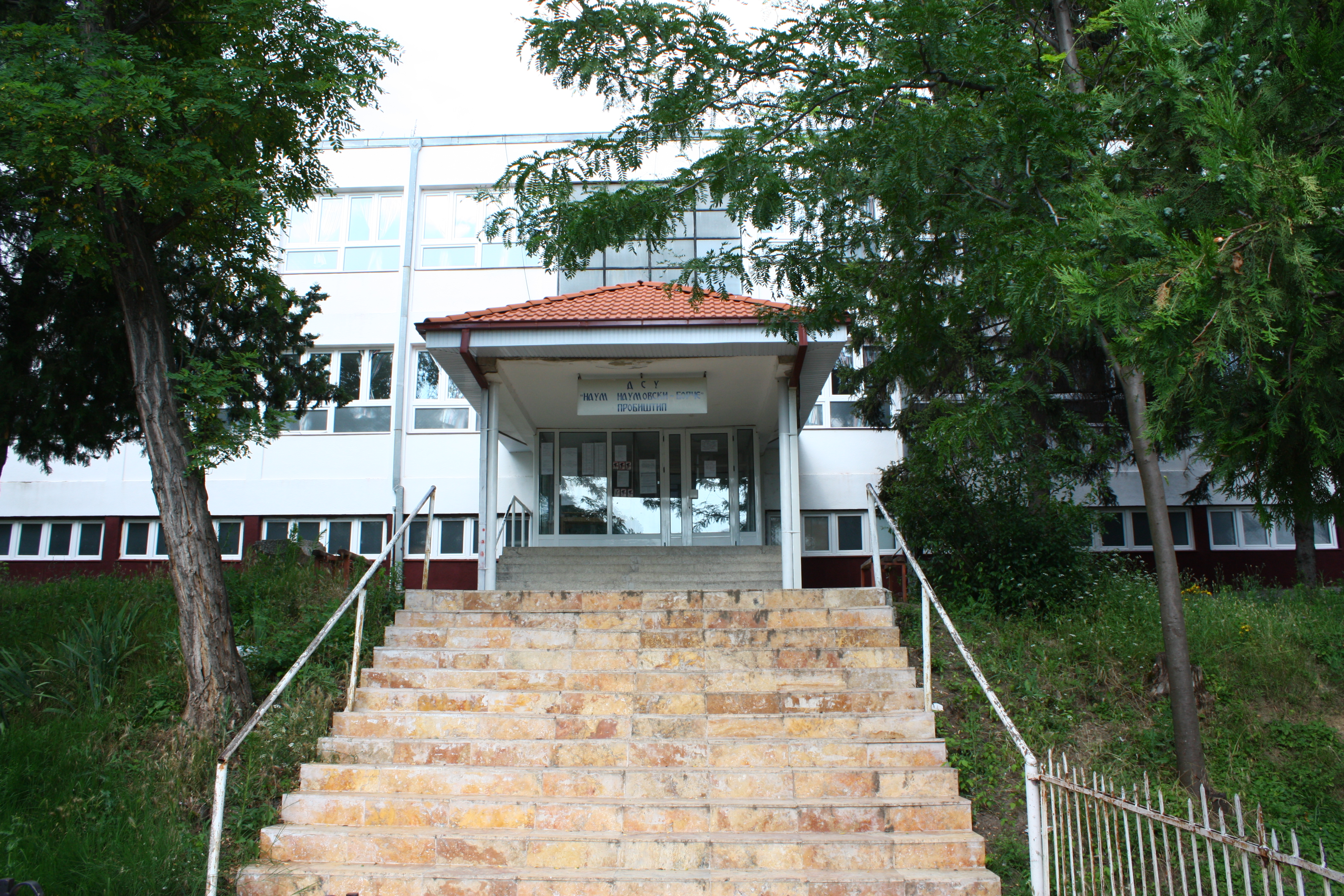 State secondary school "Naum Naumovski - Borče" in Probištip, Macedonia